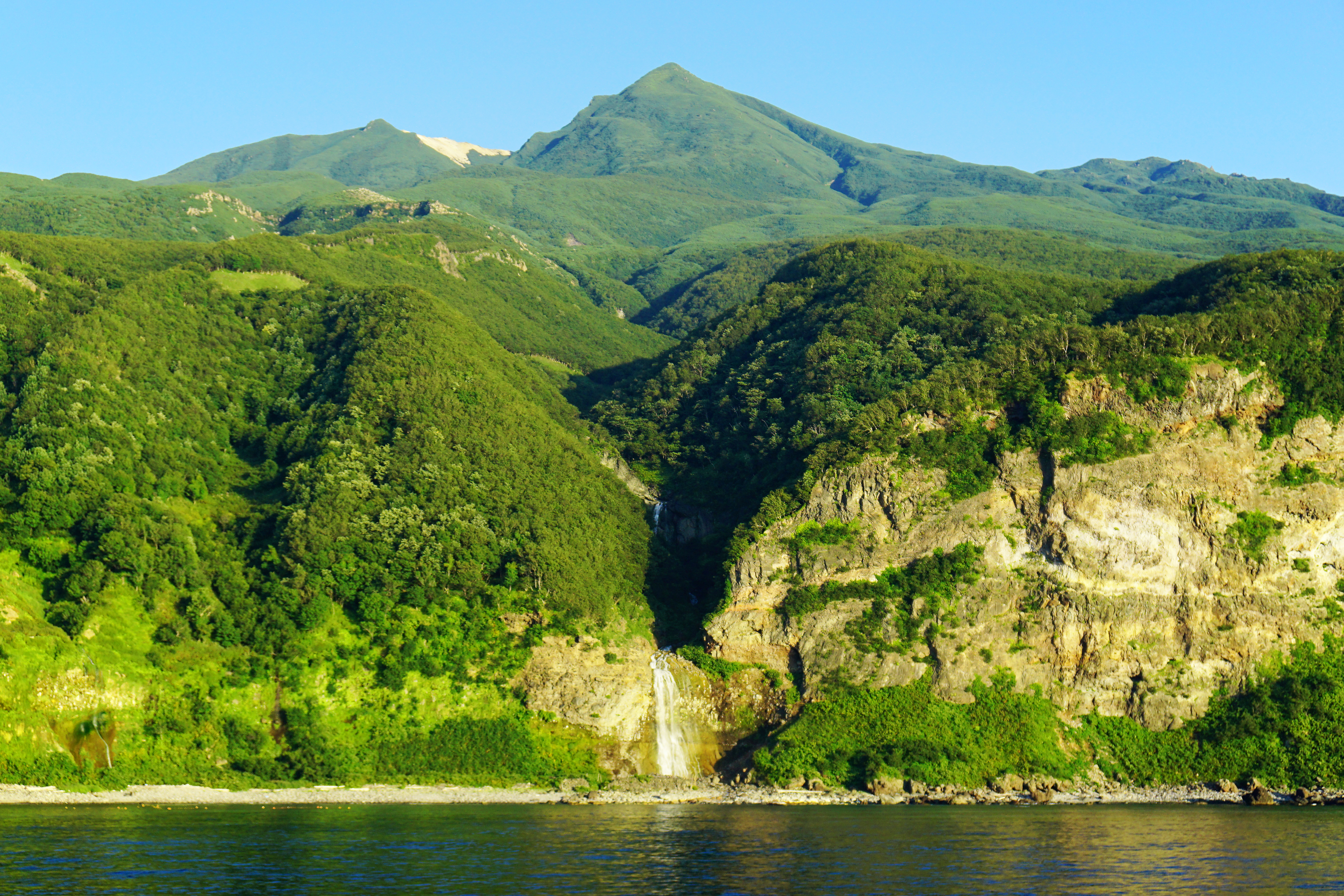 Kamuiwakka Falls and Mount Iō (Shiretoko) in Shari, Hokkaido prefecture, Japan.